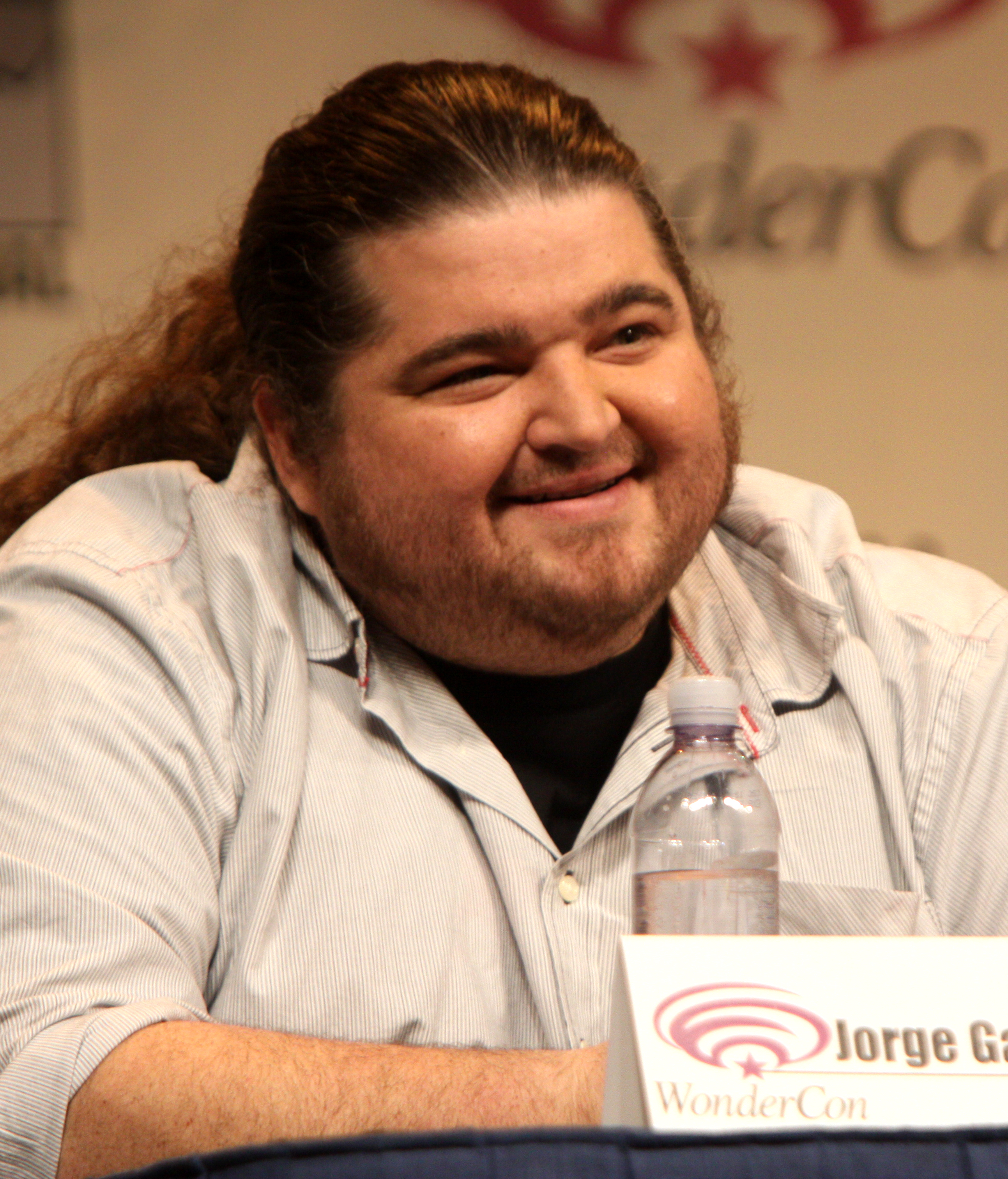 Jorge Garcia speaking at Wondercon 2012 in Anaheim, California on March 18, 2012.